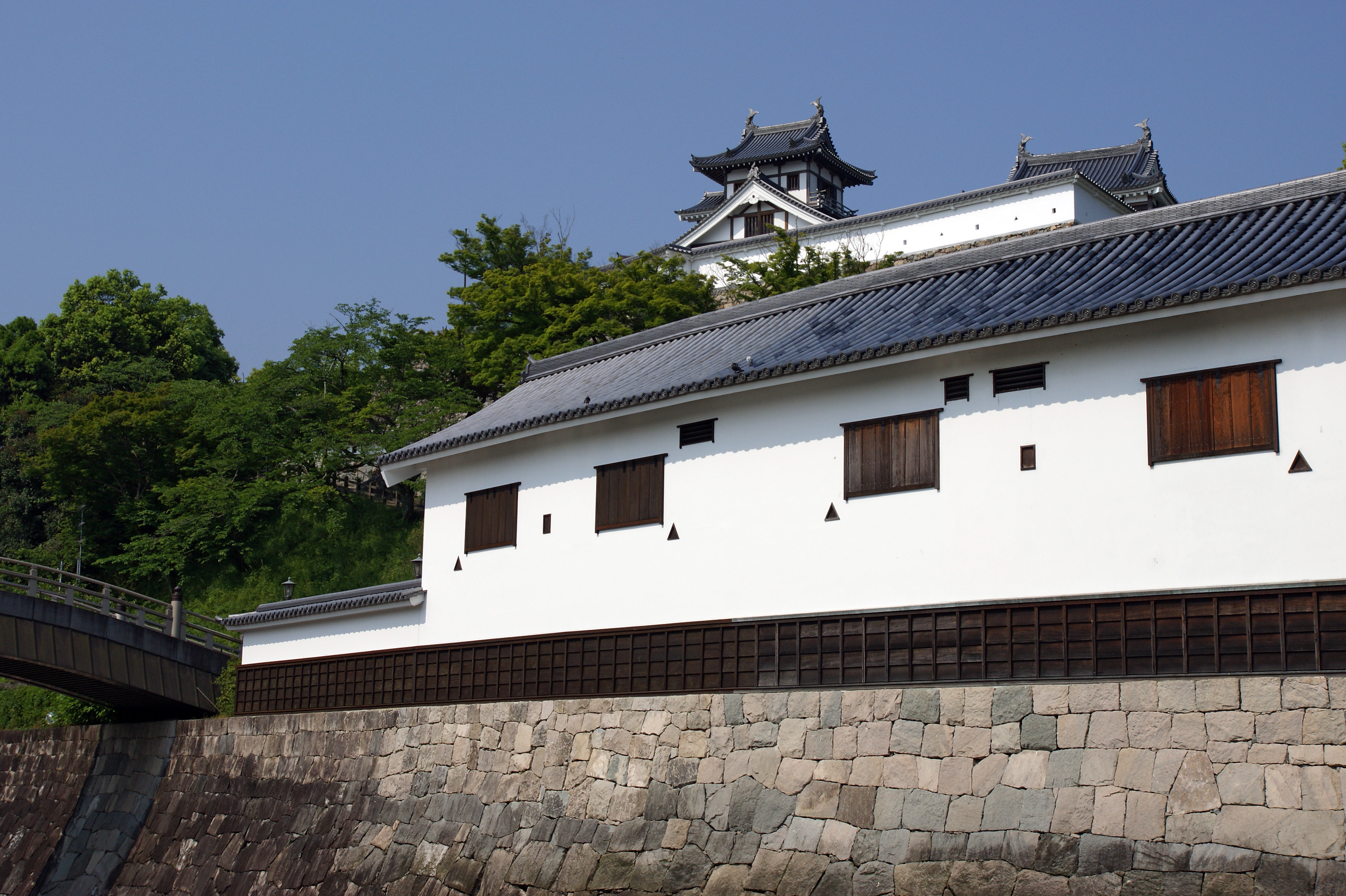 Taisei Sato Memorial Art Museum in Fukuchiyama, Kyoto prefecture, Japan